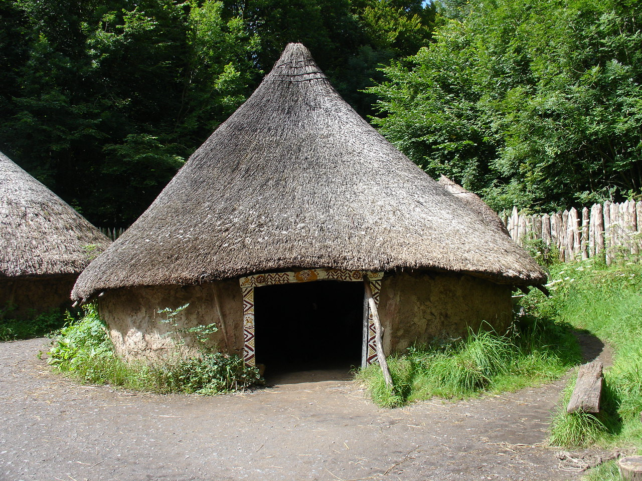 St. Fagans, National Museum Wales (Cardiff, UK): Main hut in the Celtic Village